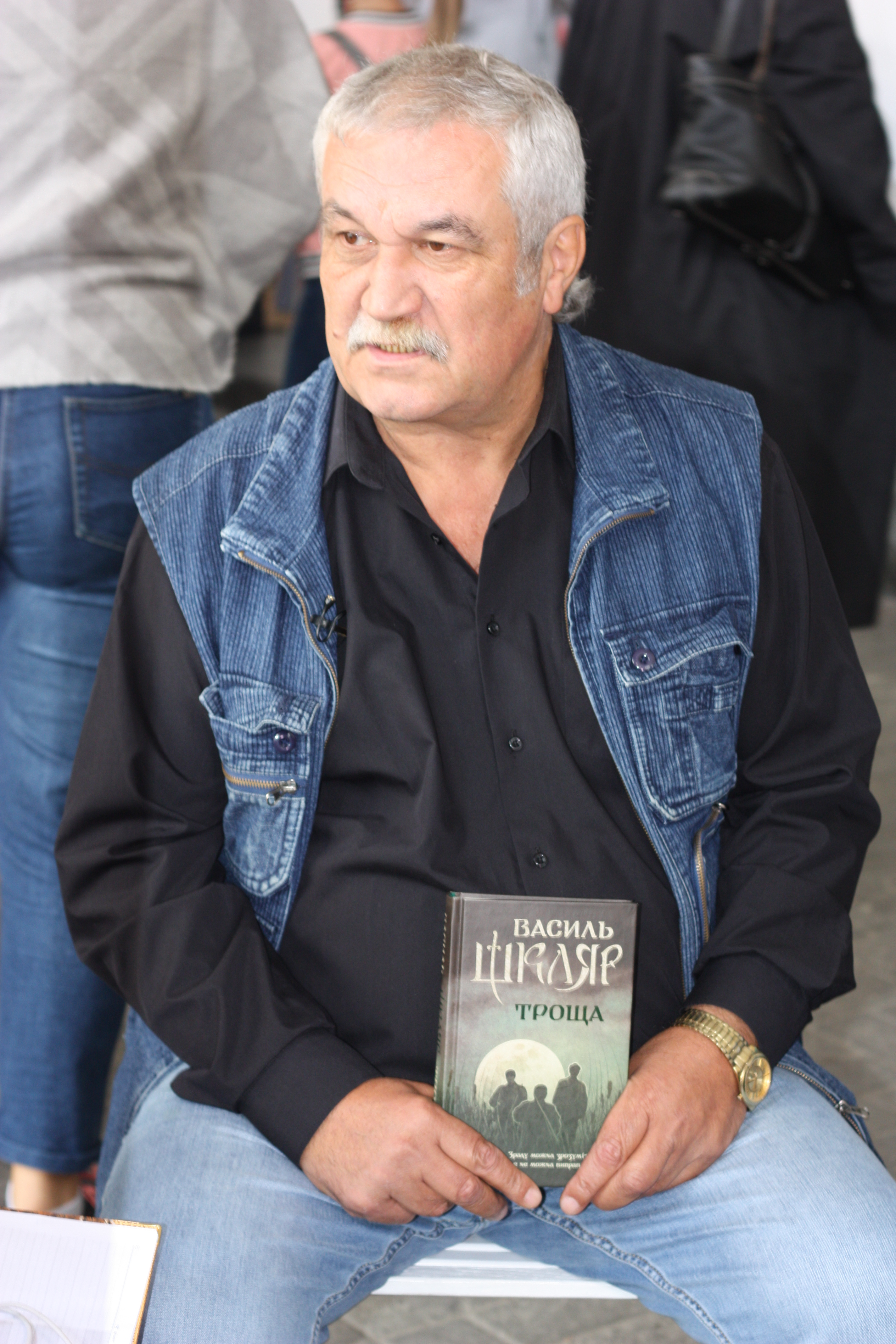 Publishers' Forum in Lviv 2017